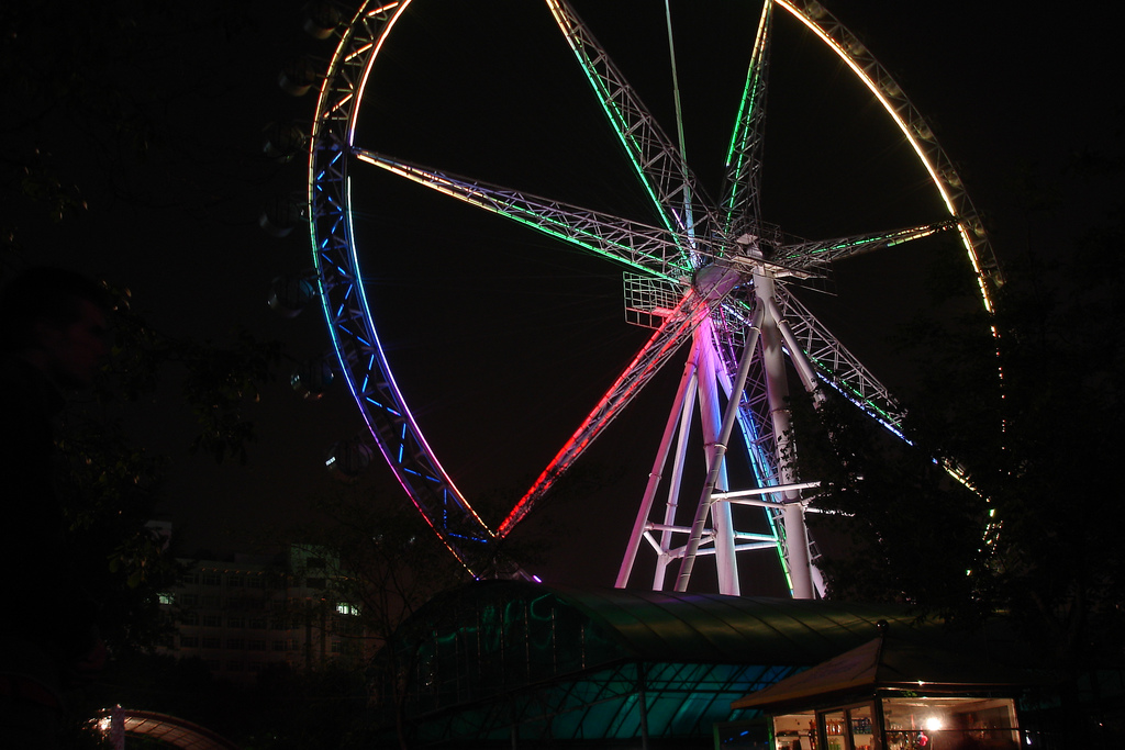 Ferris wheel with 7 spokes at Renmin Park (Zhengzhou), Henan, China. Not to be confused with the 120m 6-spoke Zhengzhou Ferris Wheel at Century Amusement Park, Zhengzhou. See discussion at Talk:Zhengzhou Ferris Wheel#Pictures don't match.